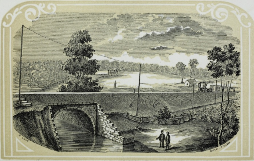 Engraving depicting the masonry railroad bridge over Euclid Creek east of Cleveland, Ohio, in the United States in 1854. This bridge was constructed by the Cleveland, Painesville, and Ashtabula Railroad in 1852. The Eucid Depot, a freight and passenger station erected by the railroad, can be seen at right.